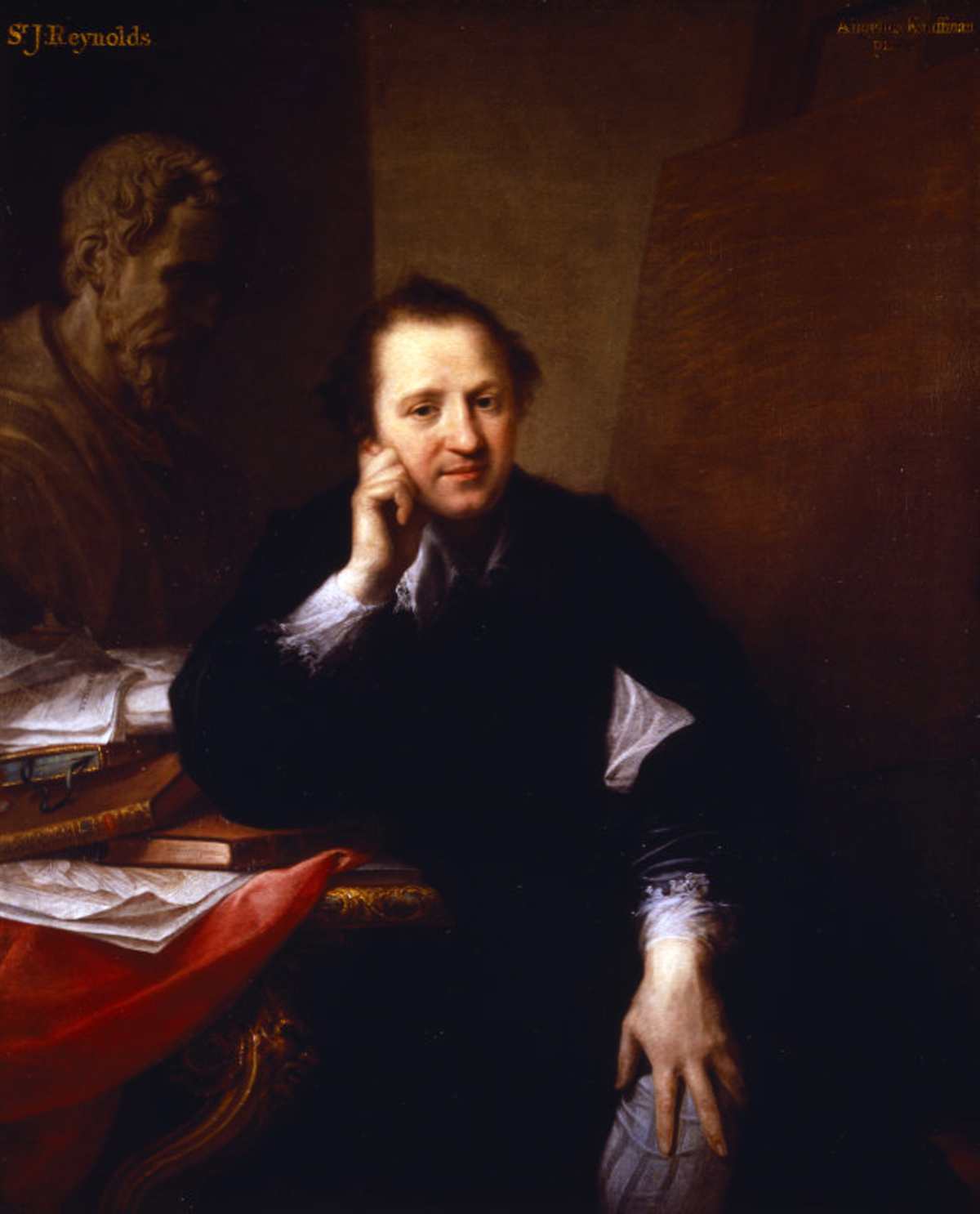 Kauffmann, Angelica; Sir Joshua Reynolds (1723-1792), PRA; National Trust, Saltram